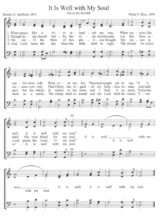 Sheet music of the hymn "It Is Well with My Soul" by Horatio Spafford.